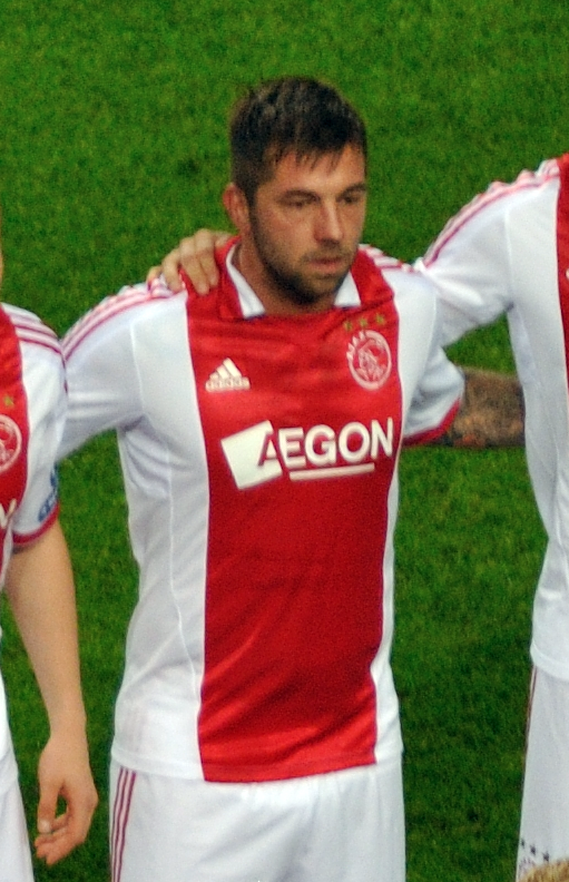 Cutout piece of: File:Basis Elftal Ajax 14Sep2011.jpg